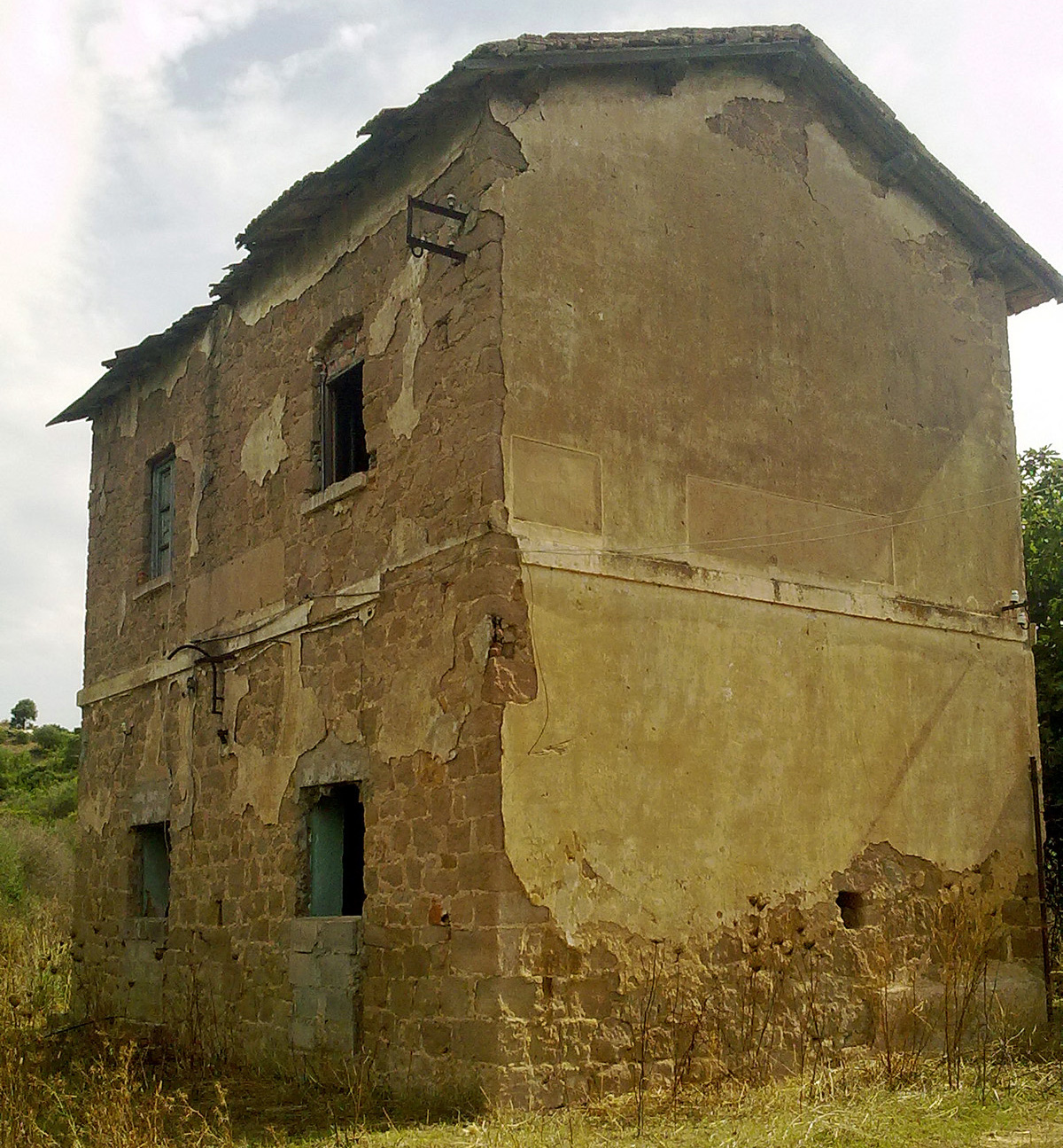 The former passenger building of the FMS railway station of Barbusi in Carbonia, Sardinia, Italy, closed in 1974